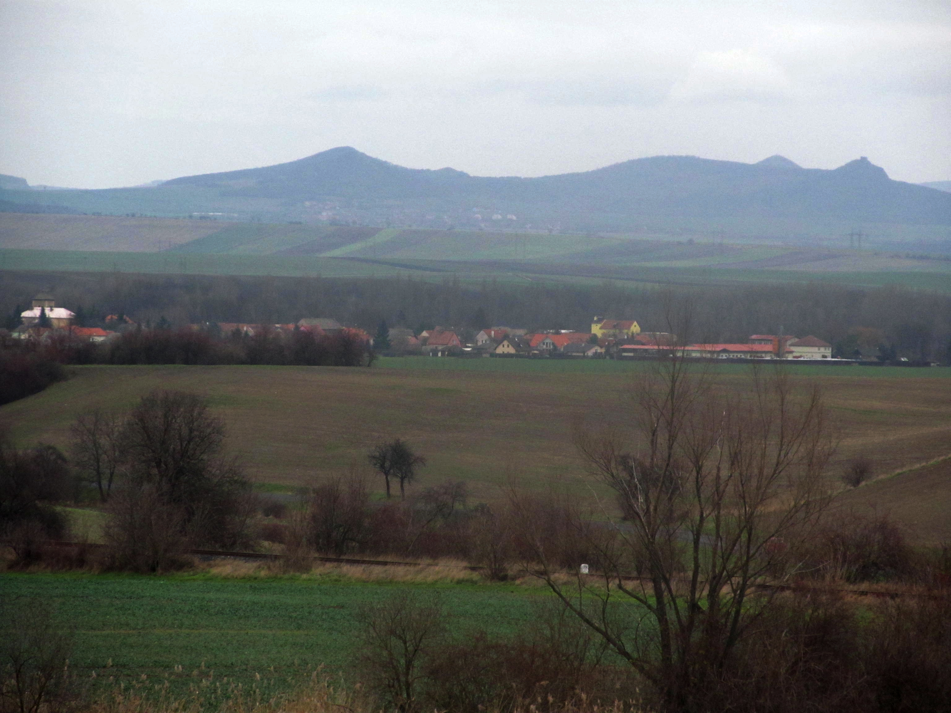 Prašný vrch by Louny